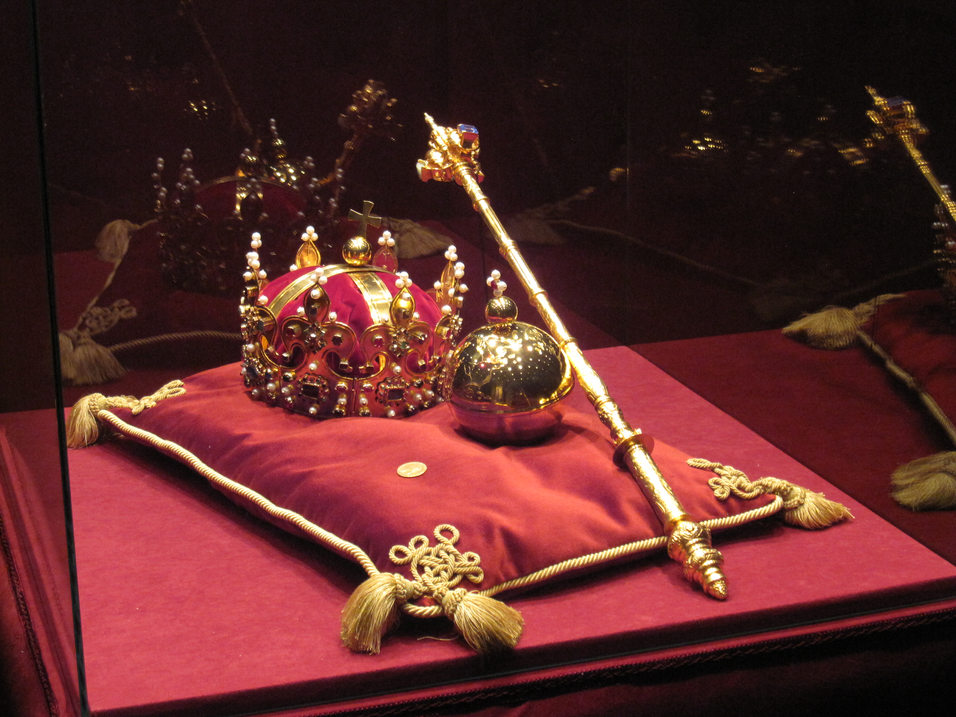 Polish crown jewels, consisting of the crown of Bolesław I the Brave, and the orb and sceptre used by Stanislaus II August of Poland. Copies were made in 2001-2003.